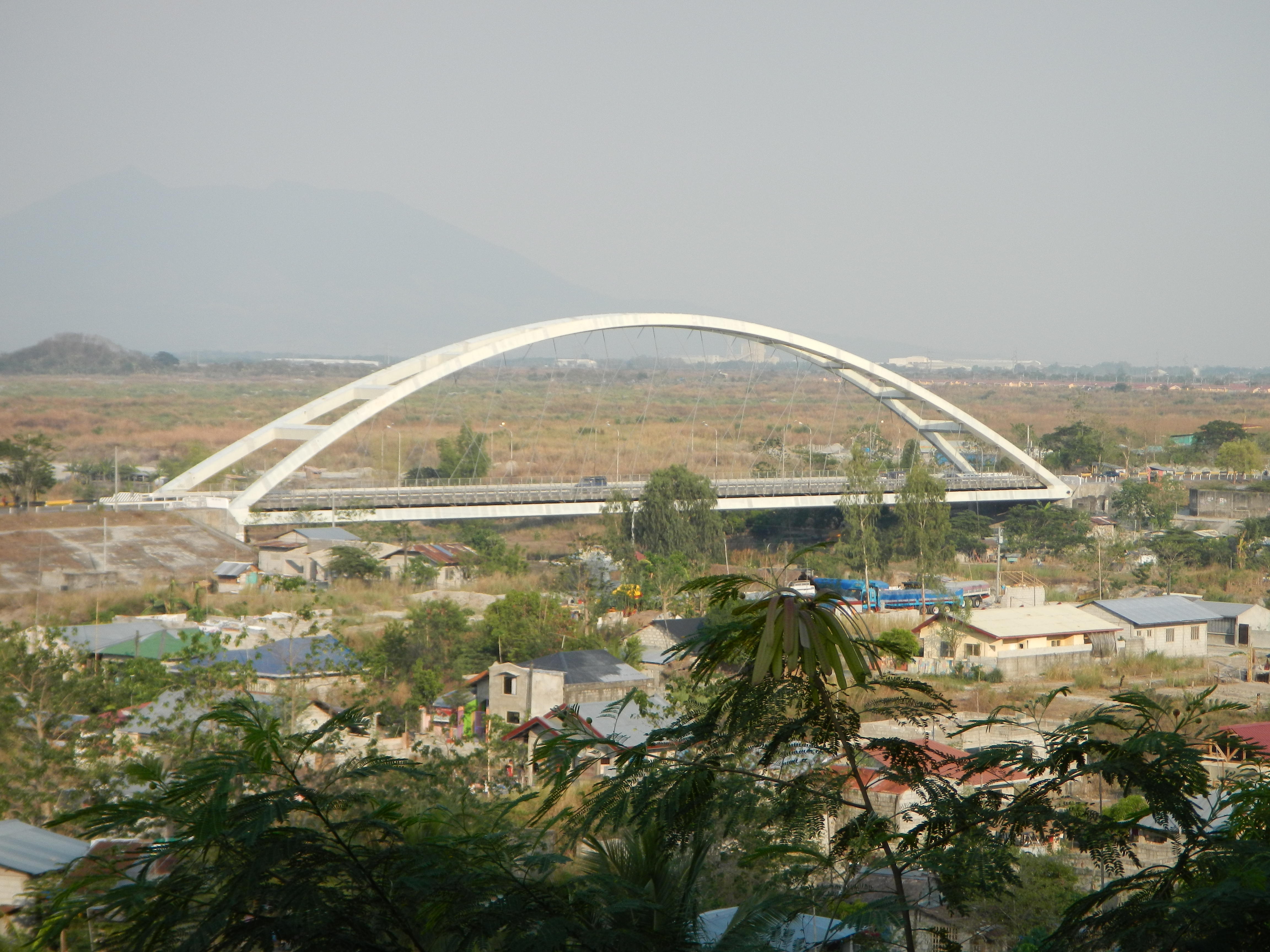 Bamban Town Hall (155169446) - [1]Bamban tourist map[2] Bamban, Tarlac[3]is a second class municipality in the province of Tarlac, Philippines. According to the 2010 census, it has a population of 62,413 people. The municipality of Bamban is the southernmost gateway of the melting pot province of Tarlac in the Central Plain of Luzon in the Philippines. It, however, is still predominantly Kapampangan, like the Municipalities of Capas and Concepcion.[4] It was in 1873 when Bamban was politically transferred from the province of Pampanga and became a town of the province of Tarlac. Don Manuel Sibal was its first “Kapitan” or head. Roads were established and a wooden bridge connecting it to Pampanga was erected in 1888.Tinaguriang mini-Jerusalem, mabibisita sa Bamban, Tarlac Mar 20, 2013[5] Land Area: 251.98 km² ZIP Code: 2317 Coordinates: 15°14'56"N 120°28'30"EBAMBAN: GATEWAY TO TARLAC [6]May 2013 Elections List of Local Candidates In Bamban, Tarlac